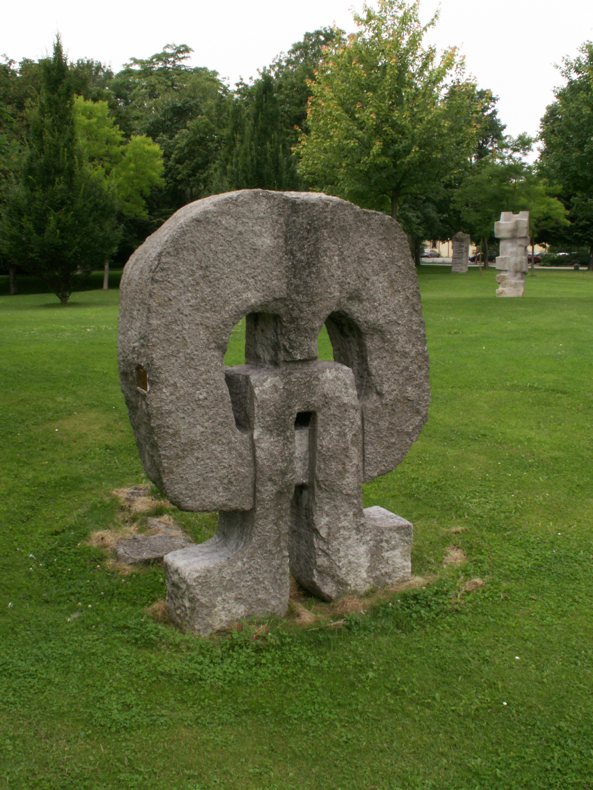 Pierre Szekely, Germany, Berlin, „Symposion europaeischer Bildhauer“, 1961/63, untitled